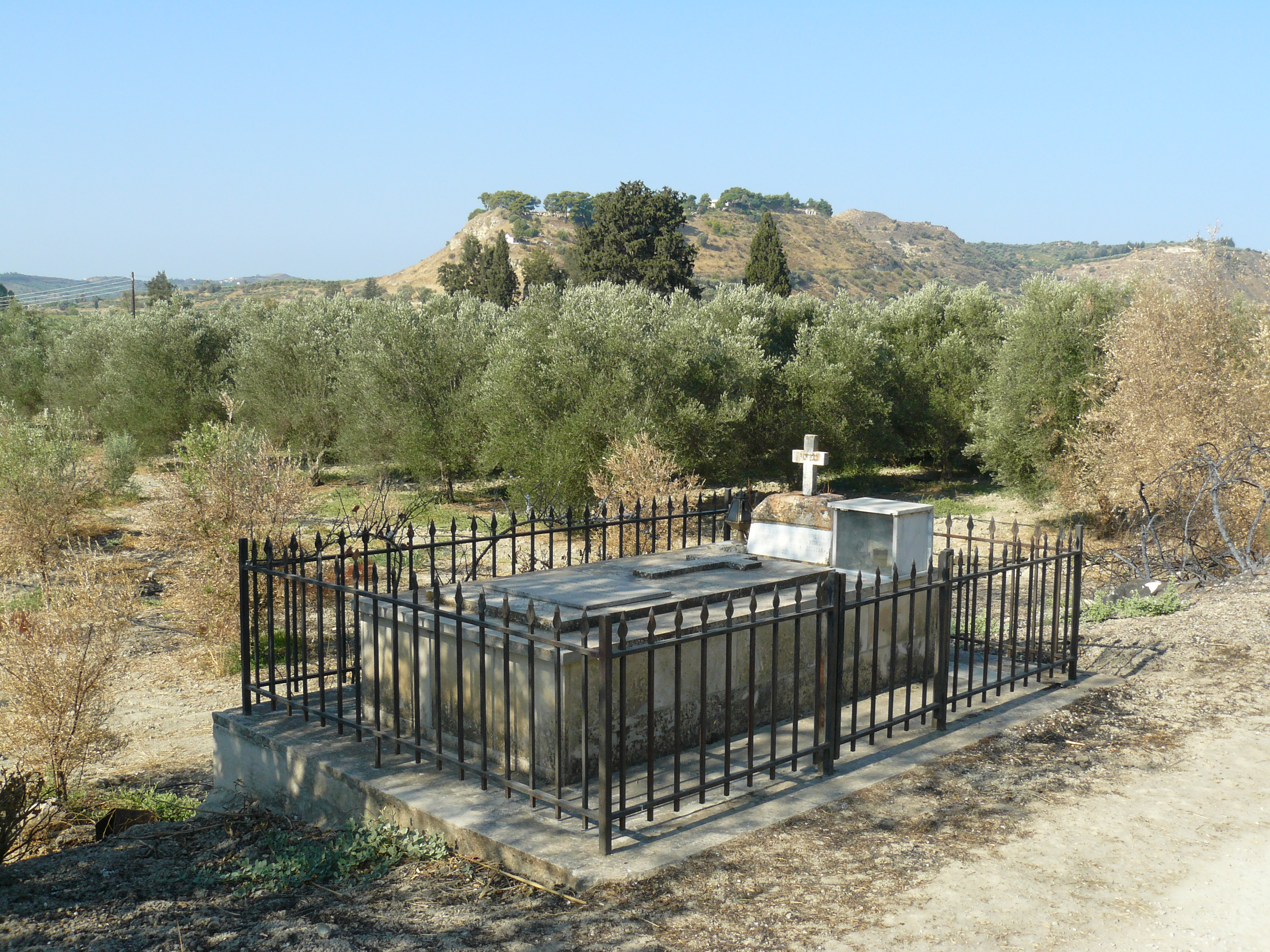 Tomb of Logios (Dimitrios Varouhas) in the background on the hill the excavation site of Phaistos, Crete, Greece.